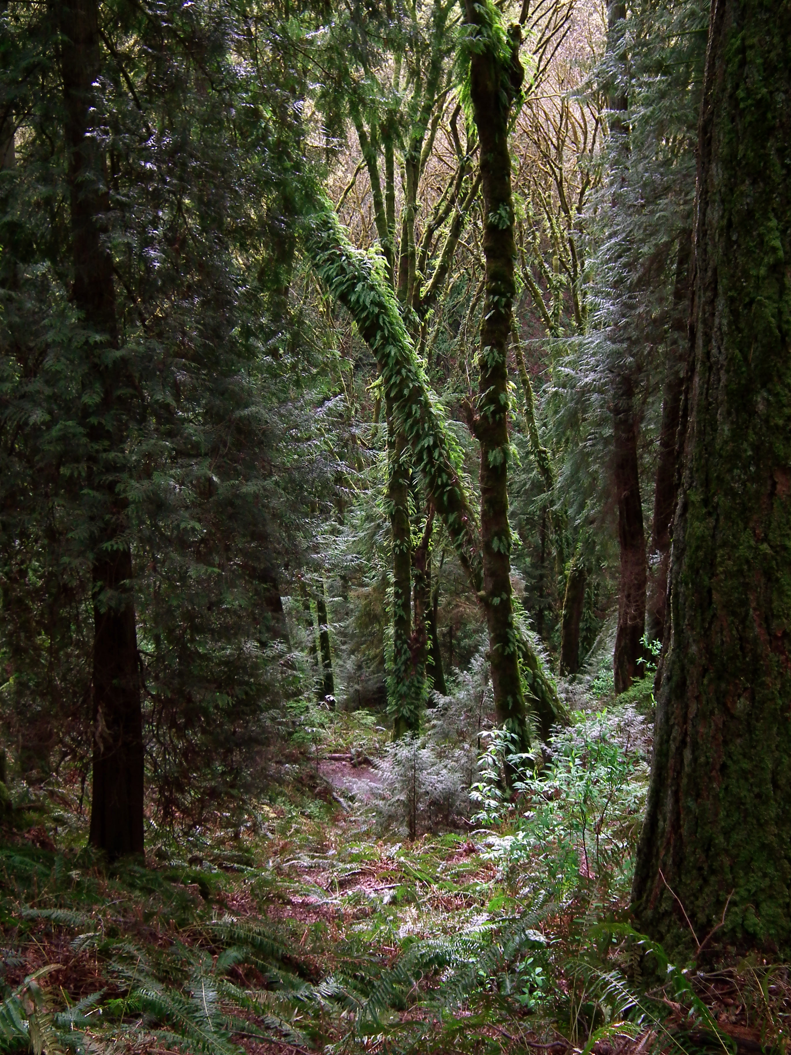 Native second-growth forest along the Orchard Trail at Saint Edward State Park, Kenmore, Washington, USA. Trees include Thuja plicata, Acer macrophyllum, and Pseudotsuga menziesii.